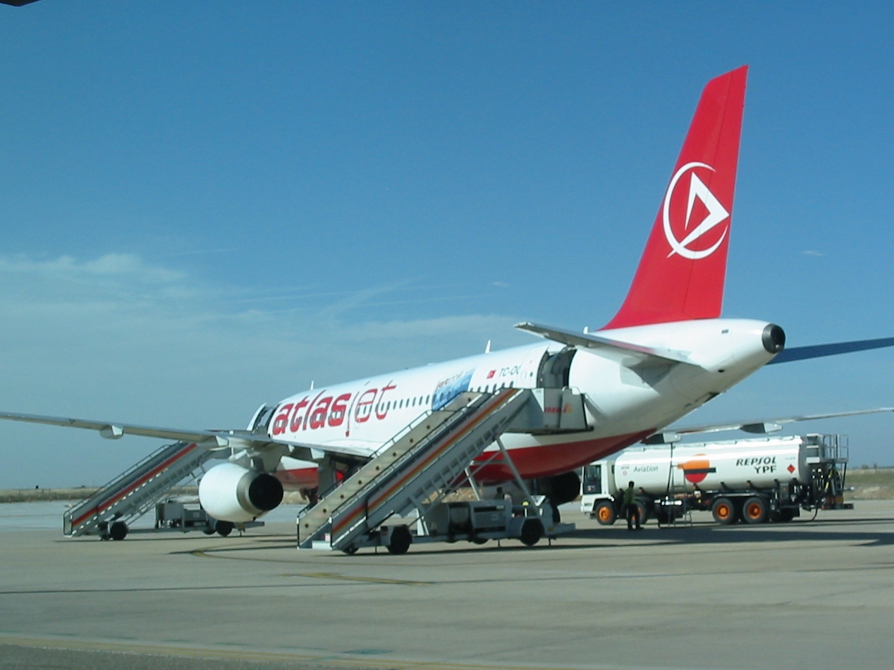 Atlasjet International Airways Airbus A320-232 refilling at Valladolid Airport